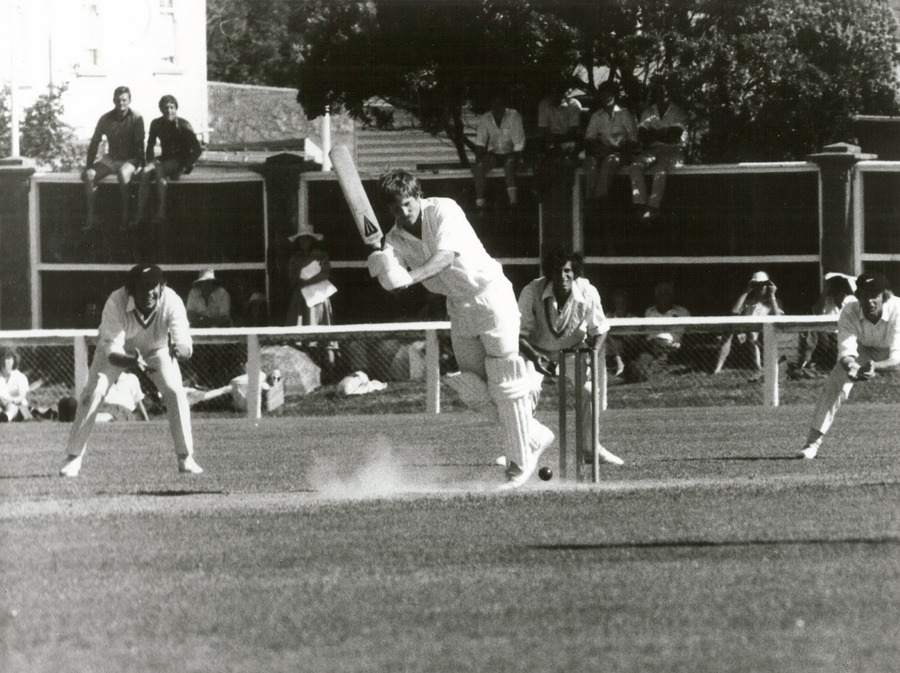 February 1978, Basin Reserve, Wellington AAQT 6539 W3537 box 16 L7/15/3/204 Archives New Zealand